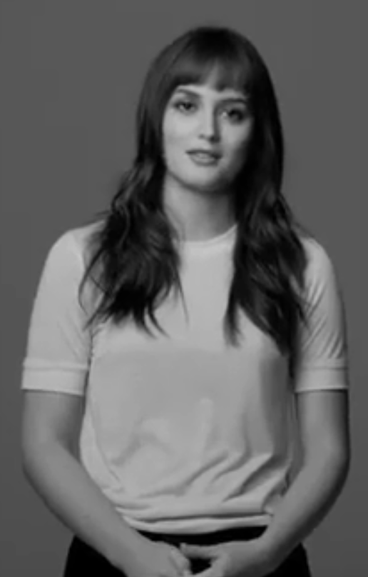 Leighton Meester Joins the Fight Against Blood Cancer